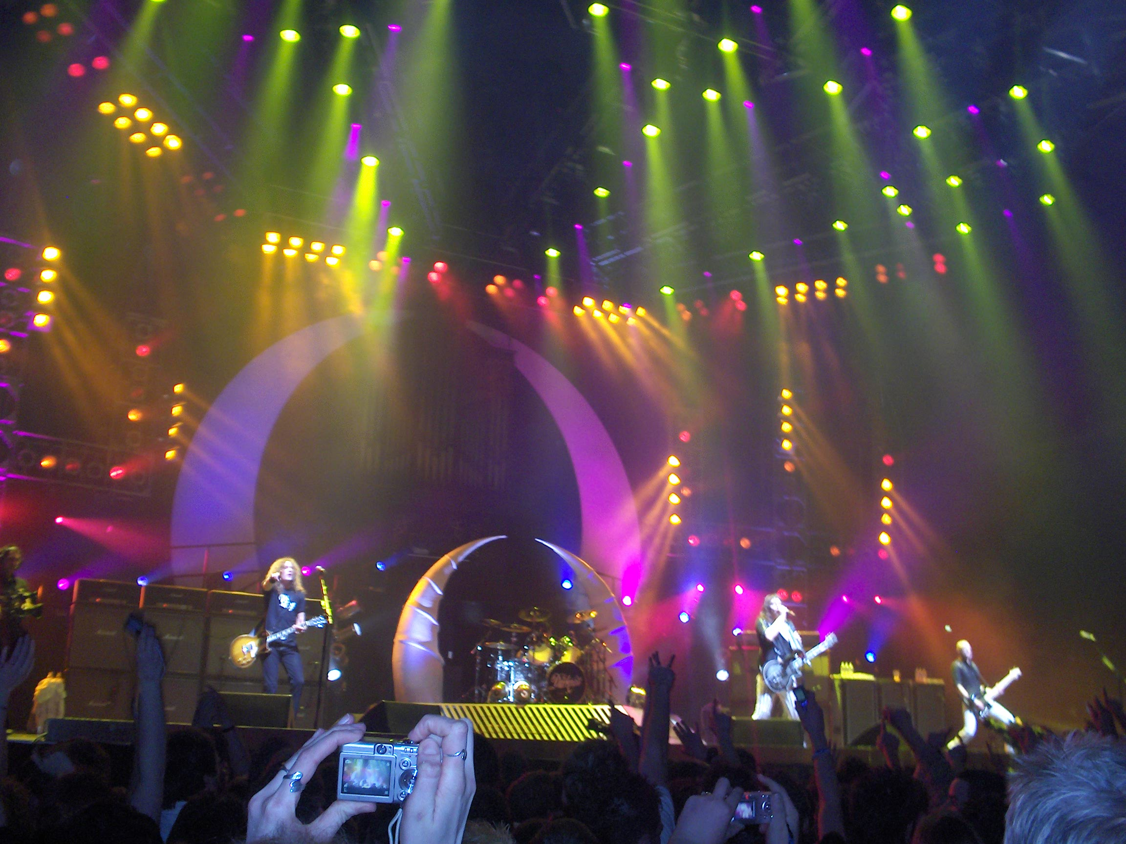 The Darkness performing Feb 12th at the Glasgow SECC